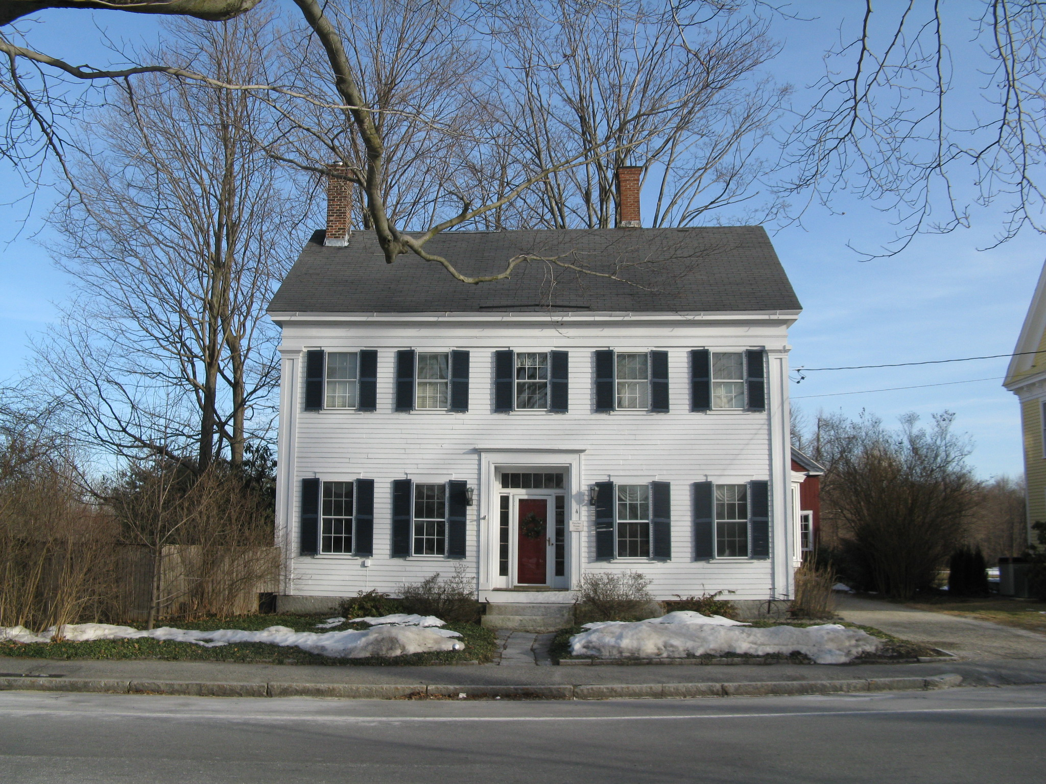 Fletcher House c1843, Westford Massachusetts